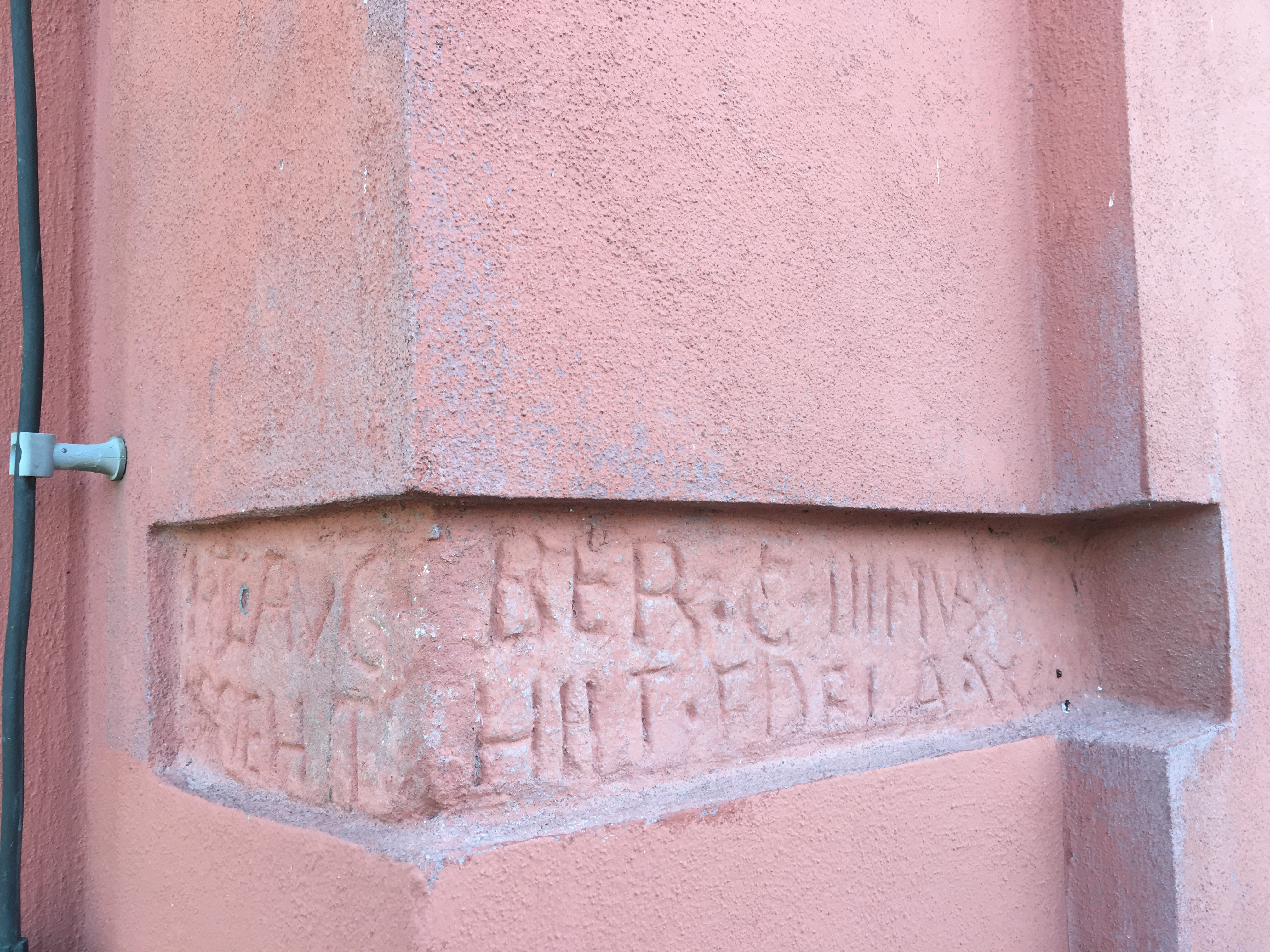 Cornerstone (1716), St Gereon, Nackenheim, Germany